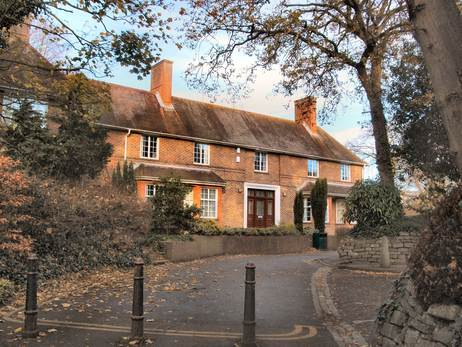 Bishop Otter Campus, University of Chichester